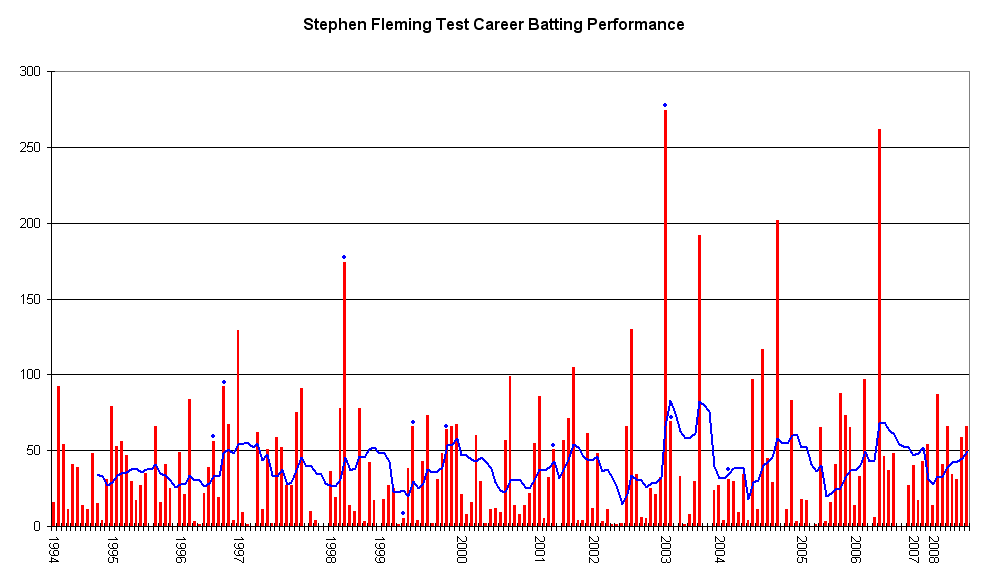 This graph details the Test Match performance of Stephen Fleming. It was created by Raven4x4x. The red bars indicate the player's test match innings, while the blue line shows the average of the ten most recent innings at that point. Note that this average cannot be calculated for the first nine innings. The blue dots indicate innings in which Fleming finished not-out. This graph was generated with Microsoft Excel 2002, using data from Cricinfo [1] and Howstat [2].